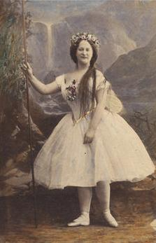 Carlotta Leclerq in 1860, one of the four daughters of Charles Clark (1797–1861) and his wife, Margaret, née Burnet.